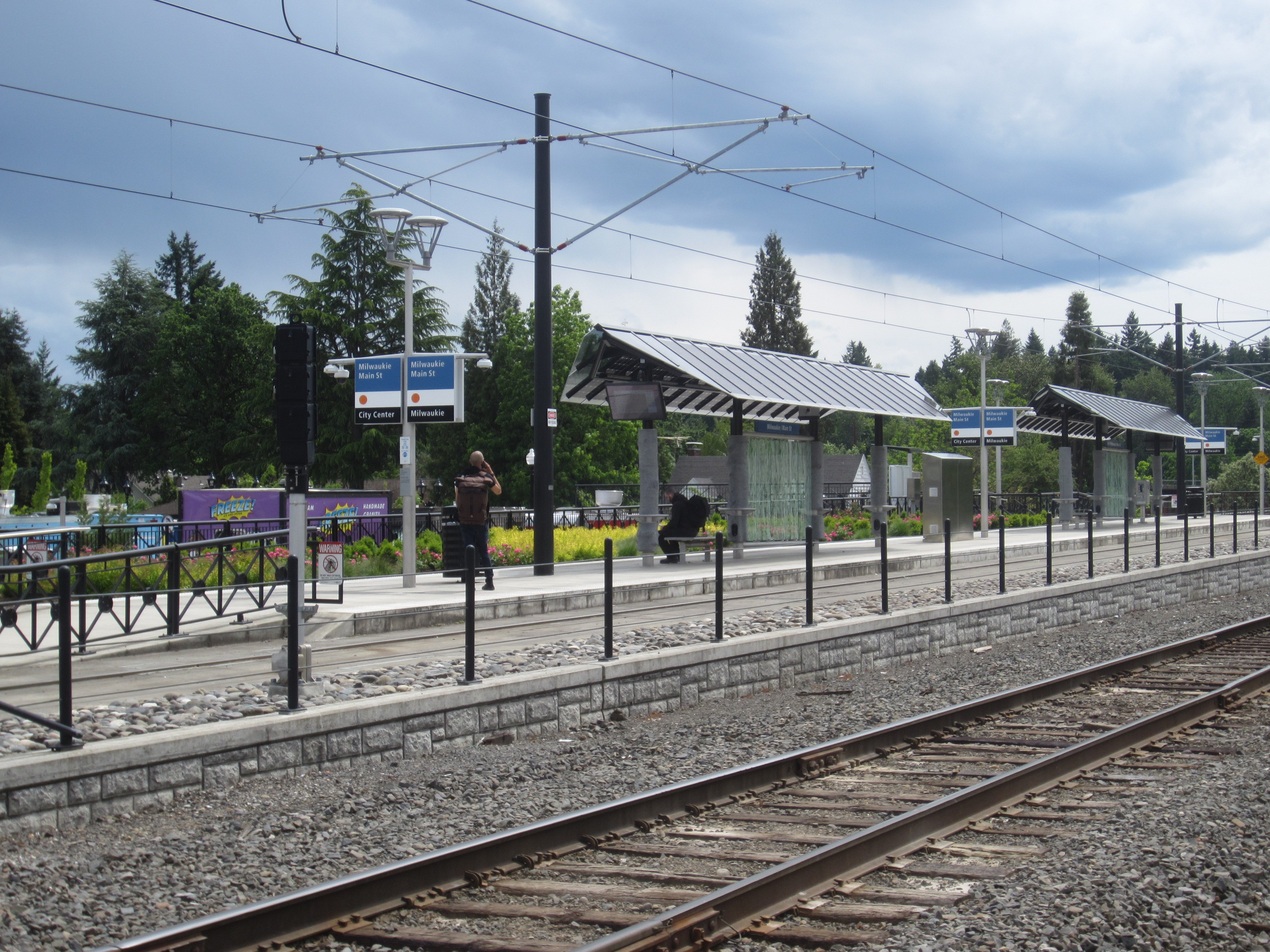 Milwaukie, Oregon (May 2019)